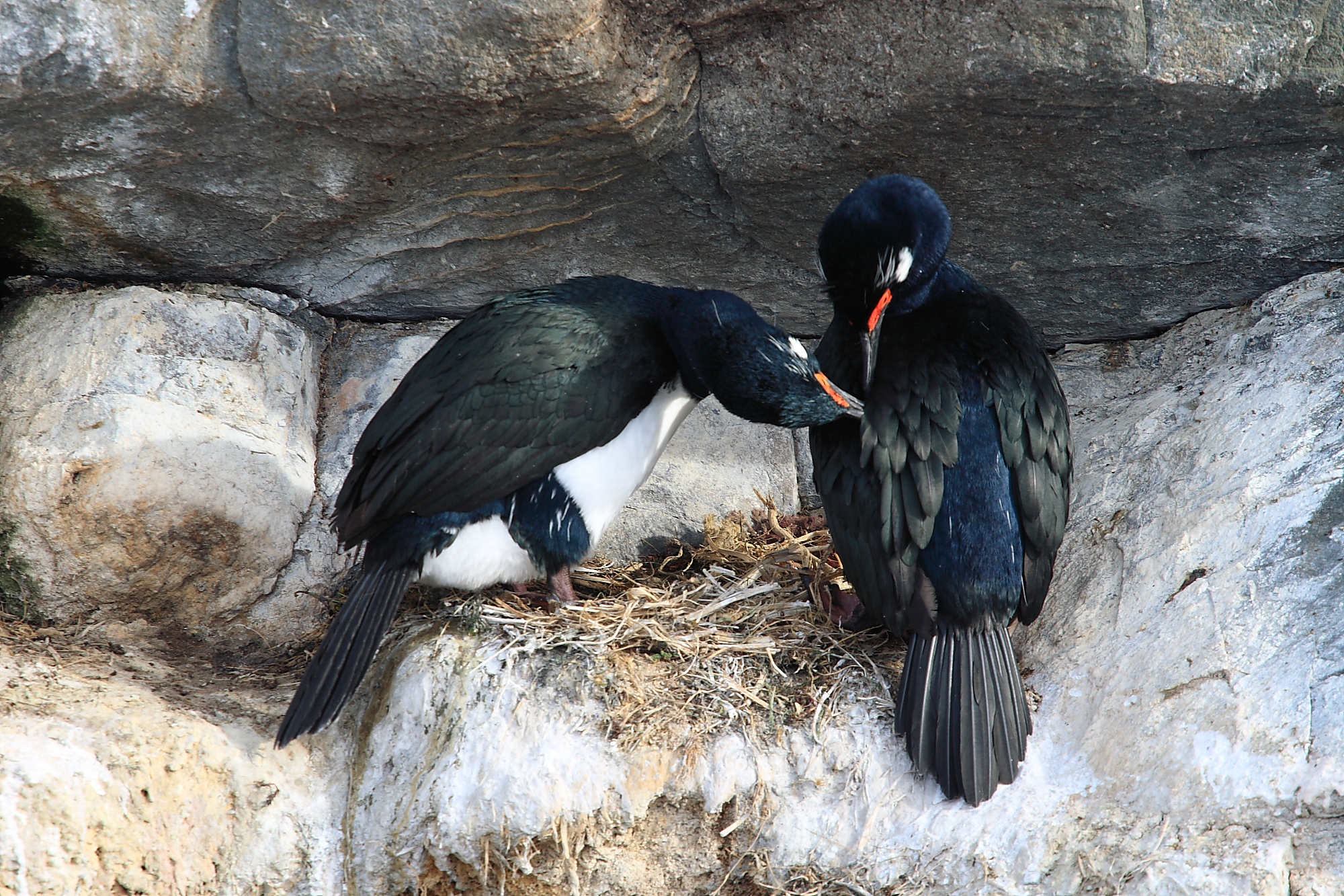 Rock Shags nesting on a rocky island in the Beagle Channel near Ushuaia, Tierra del Fuego, Argentina